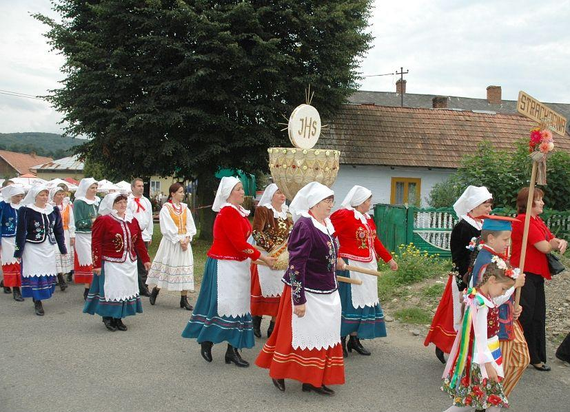 Village Strachocina (County Sanok, Harvest festival) traditional polish folk costume.